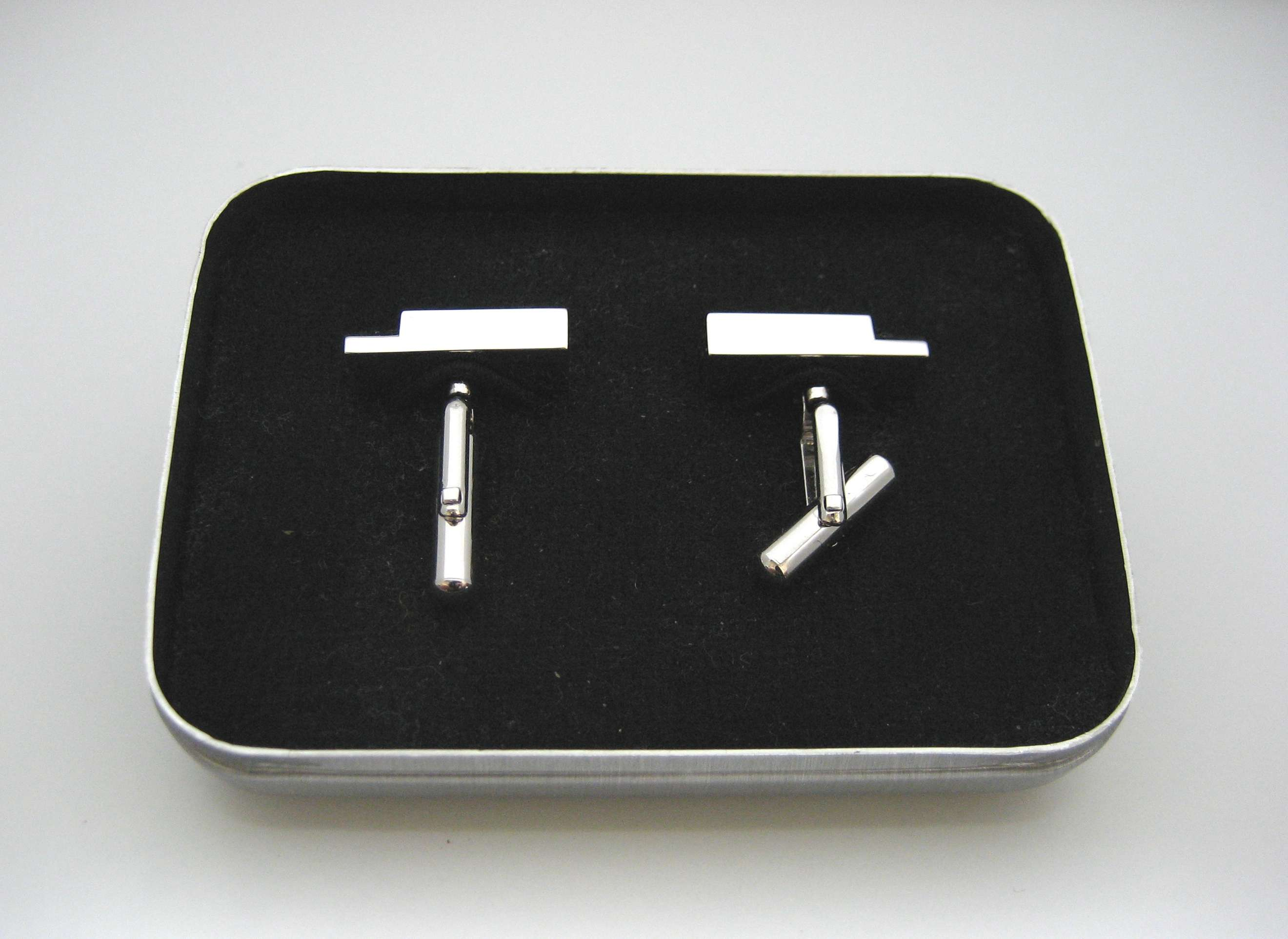 cuffs-button. 作成者撮影。